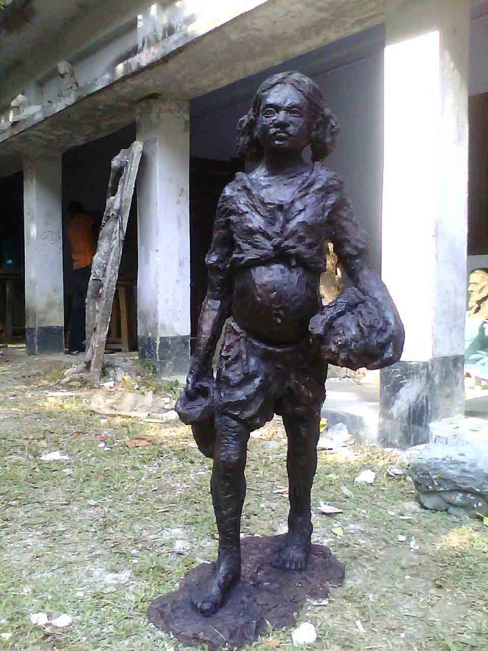 Sculture at the Faculty of Fine Arts, University of Rajshahi